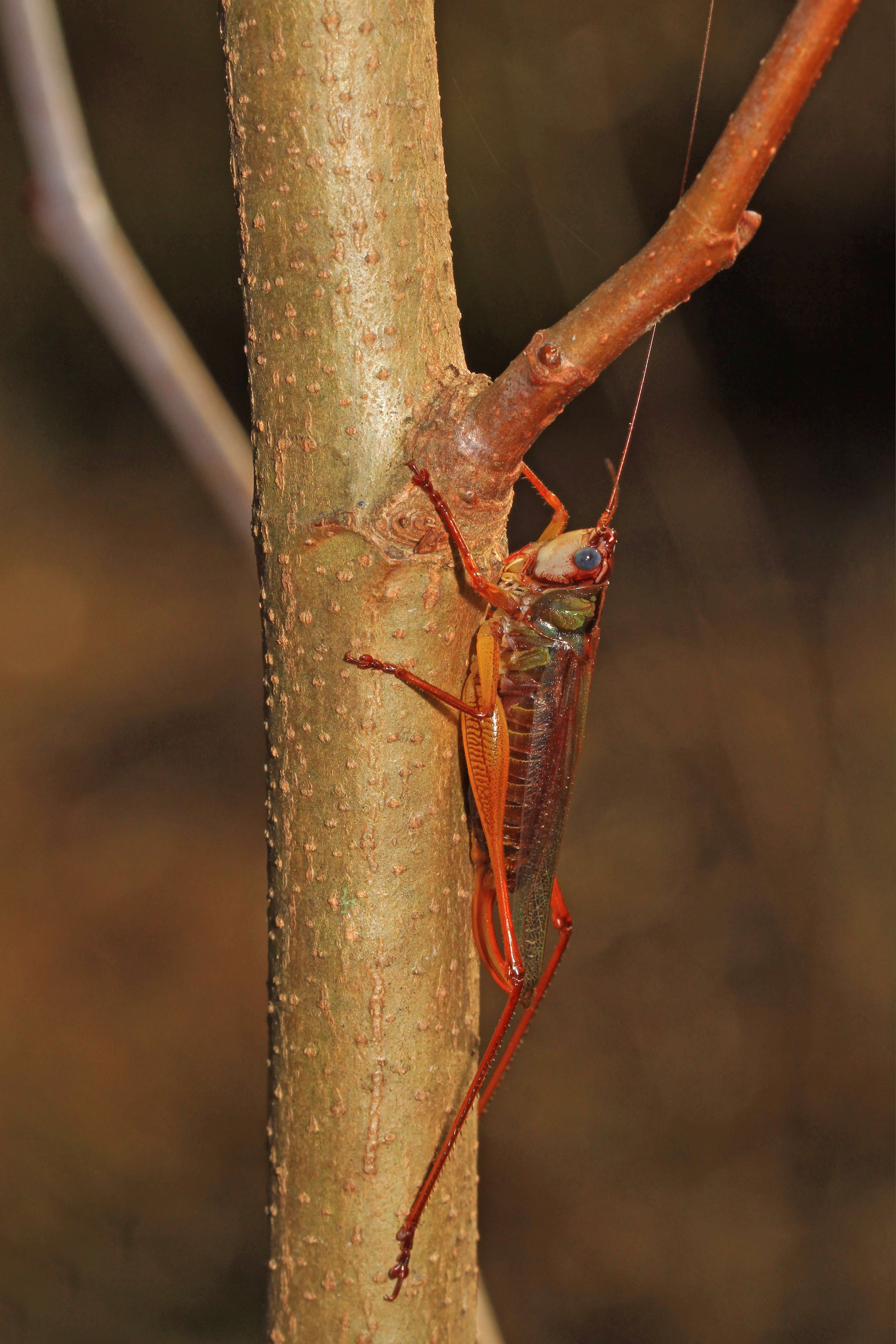 Handsome Meadow Katydid - Orchellimum pulchellum, Colchester Park, Mason Neck, Virginia.